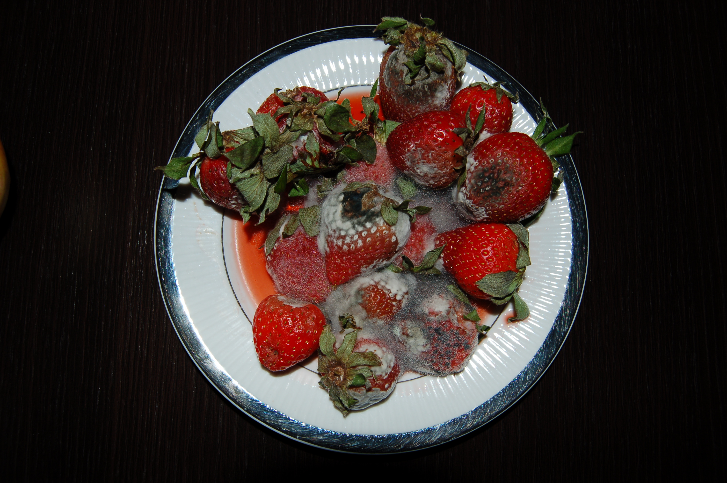 Mold on strawberries